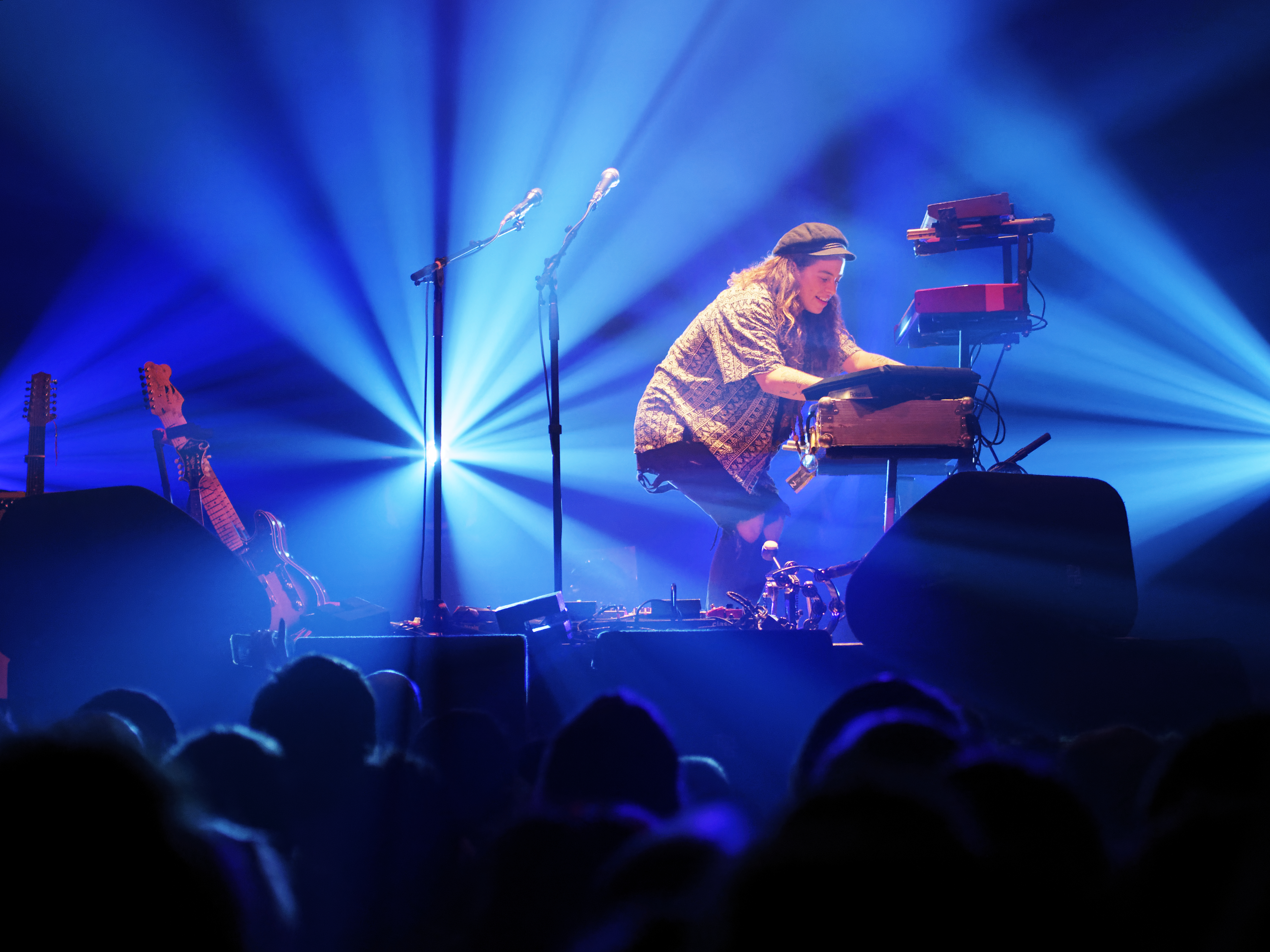 Tash Sultana in performance